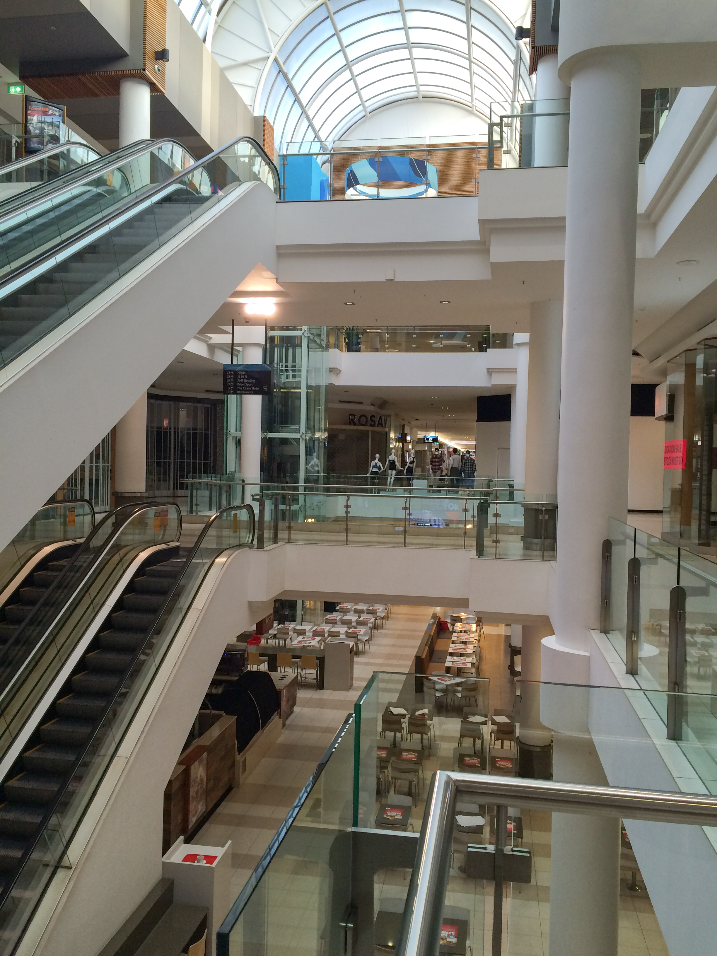 Forest hill chase food court early morning